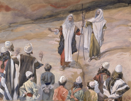 Moses Forbids the People to Follow Him, c. 1896-1902, by James Jacques Joseph Tissot (French, 1836-1902), gouache on board, 8 3/8 x 10 7/8 in. (21.3 x 27.7 cm), at the Jewish Museum, New York